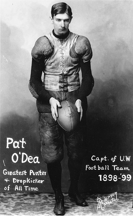 Session photo of Pat O'Dea, punter/kicker/fullback for the University of Wisconsin team, also an Australian rules football player.